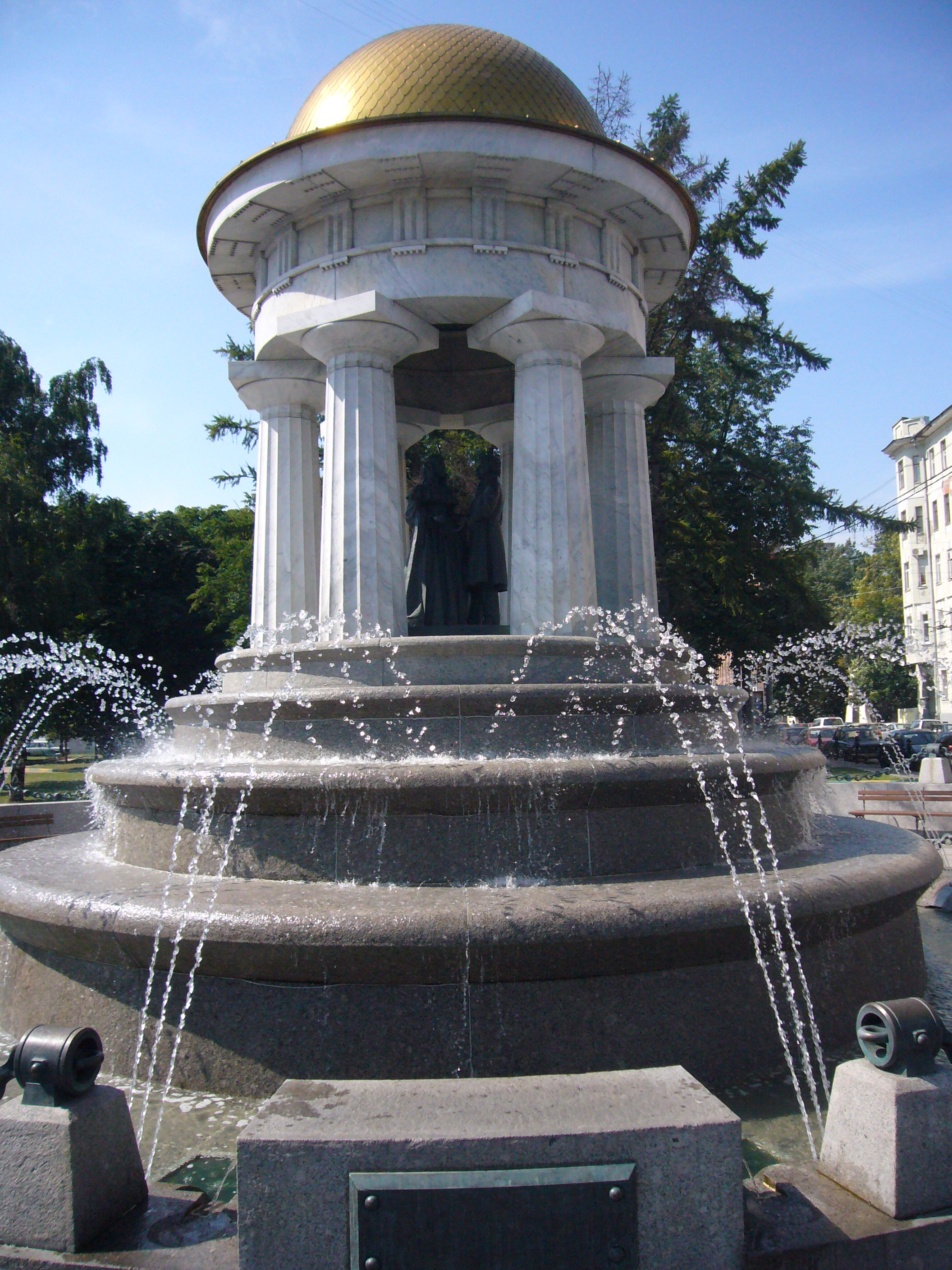 Fountain Natalia and Alexander near Nikitskiye Vorota in Moscow commemorating 200th anniversary of A. Pushkin (1999). Architector: Alexander Burhanov.